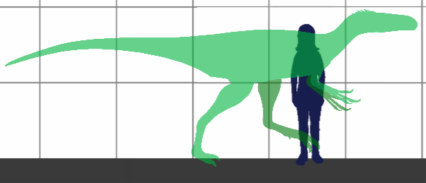 Estimated size of the theropod dinosaur Juratyrant langhami, compared to a human.